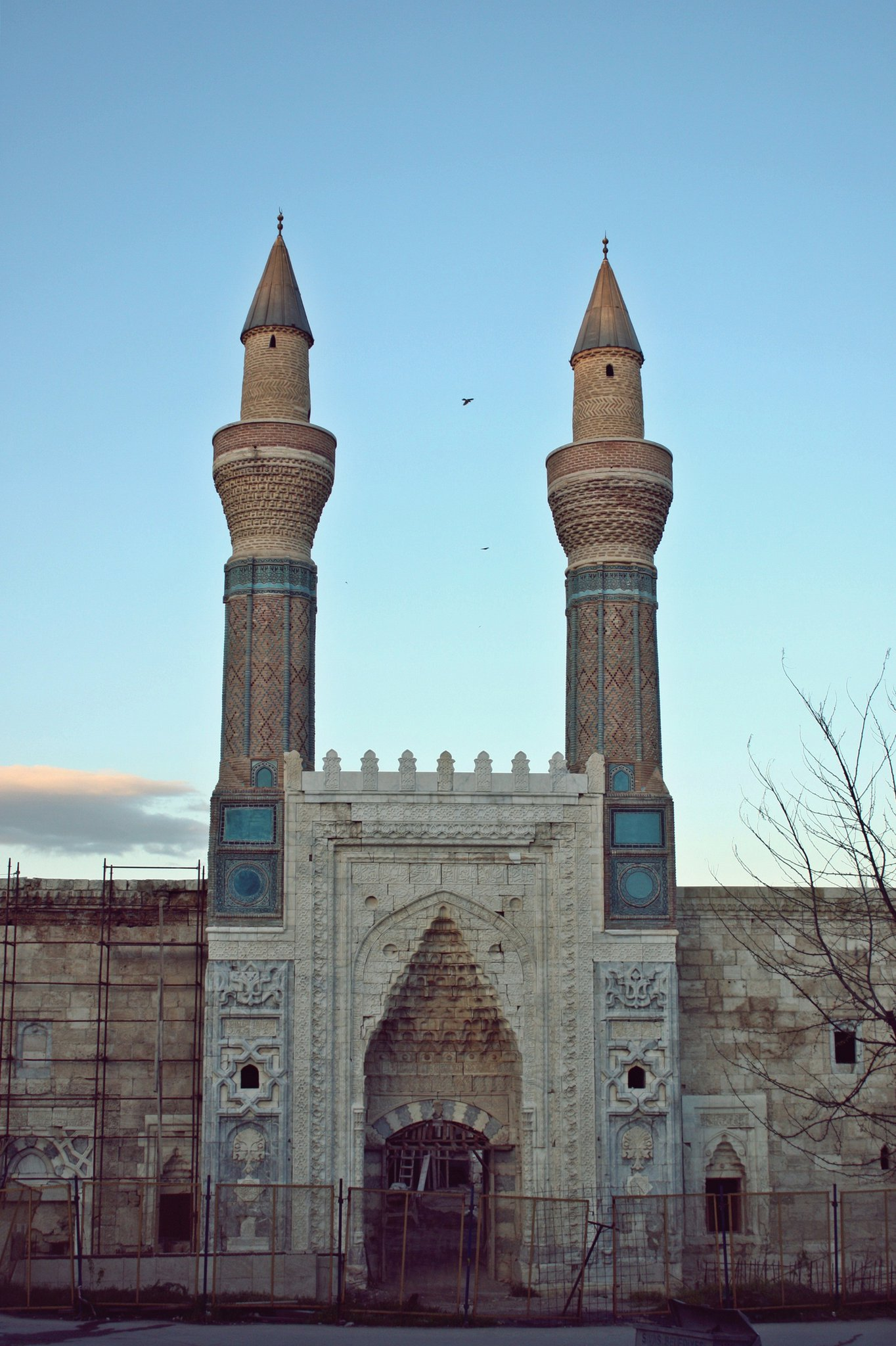 Gök Medrese